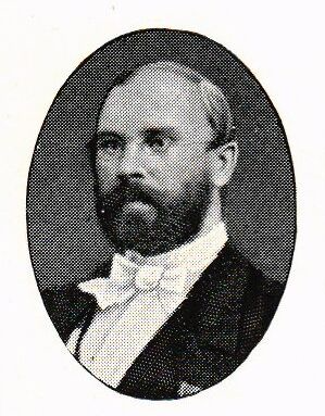 Carl Anton Pettersson (1818-1863), Swedish Naval officer and artist.